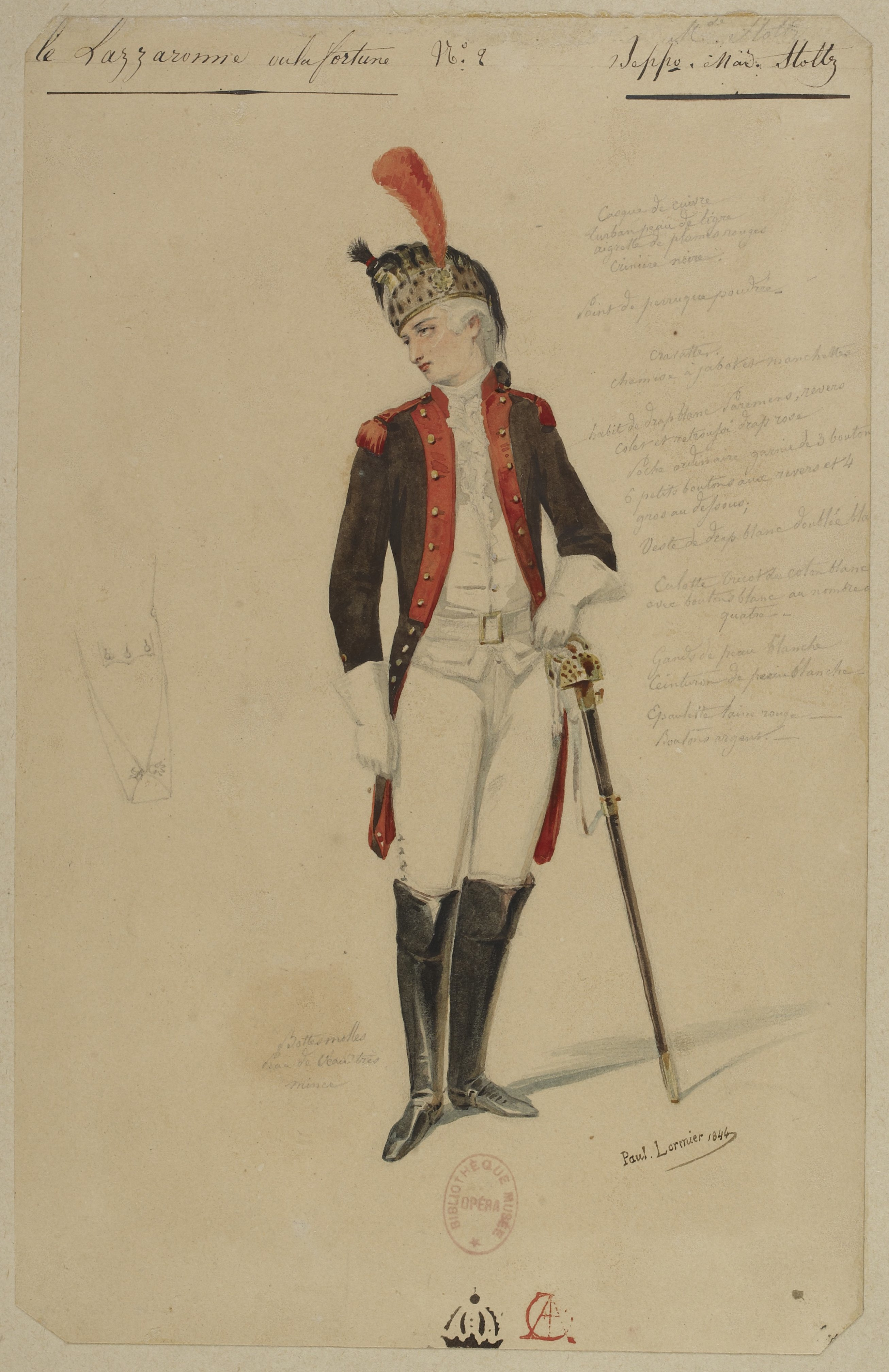 Costume design by Paul Lormier for Rosine Stoltz as Beppo in the opera Le lazzarone by Fromental Halévy as premiered by the Paris Opera at the Salle Le Peletier on 29 March 1844